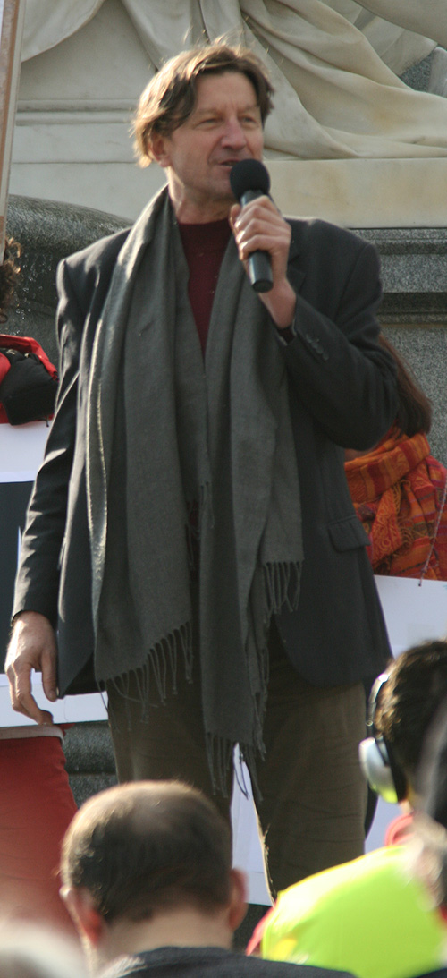 Austrian actor, director and political activist Hubert Kramar during a speech against the Treaty of Lisboa in front of the Austrian Parliament Building in Vienna